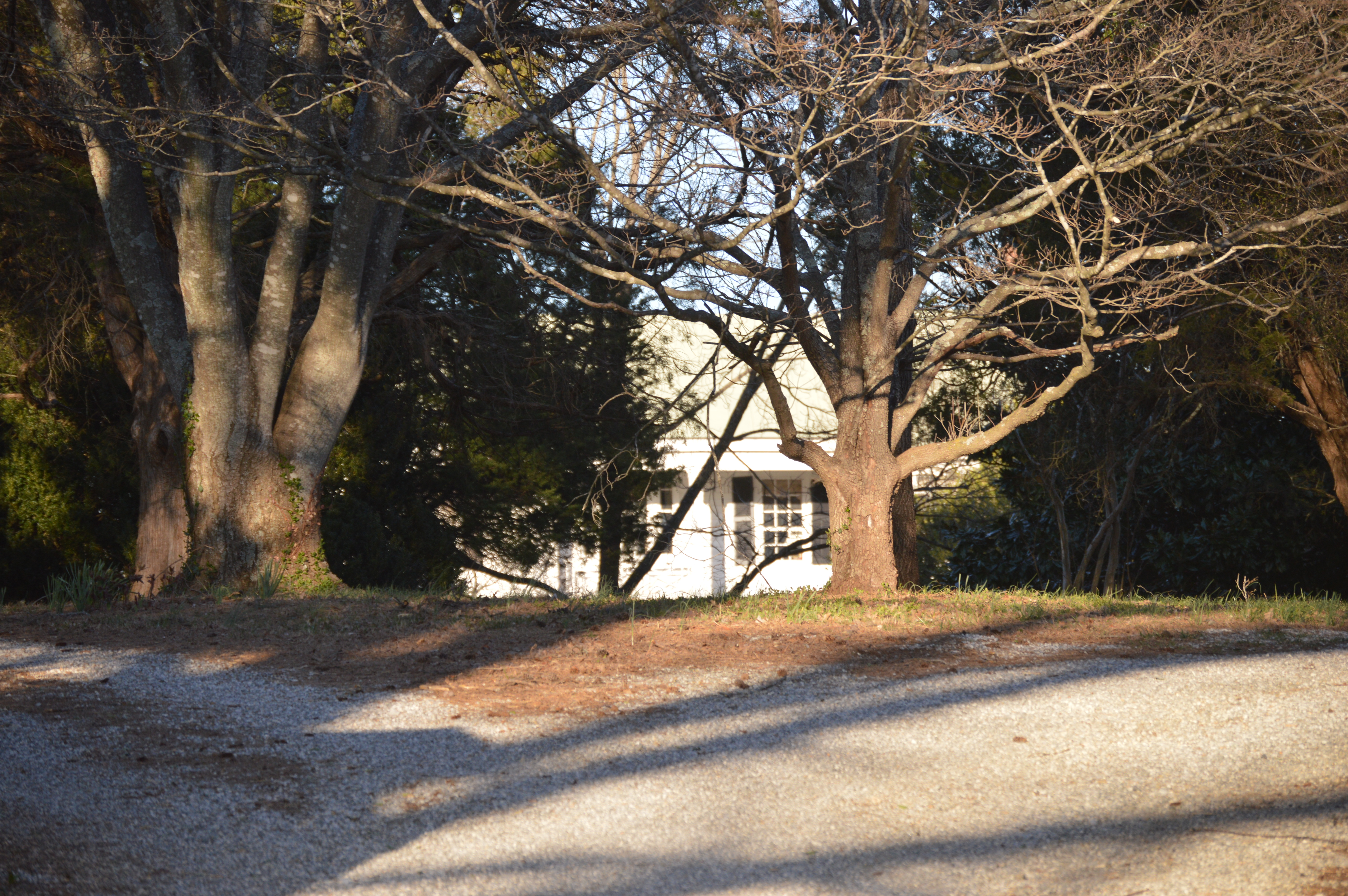 Driveway view of The Glebe, located on State Route 151 south of Clifford in Amherst County, Virginia, United States. Built in 1825, it is listed on the National Register of Historic Places.